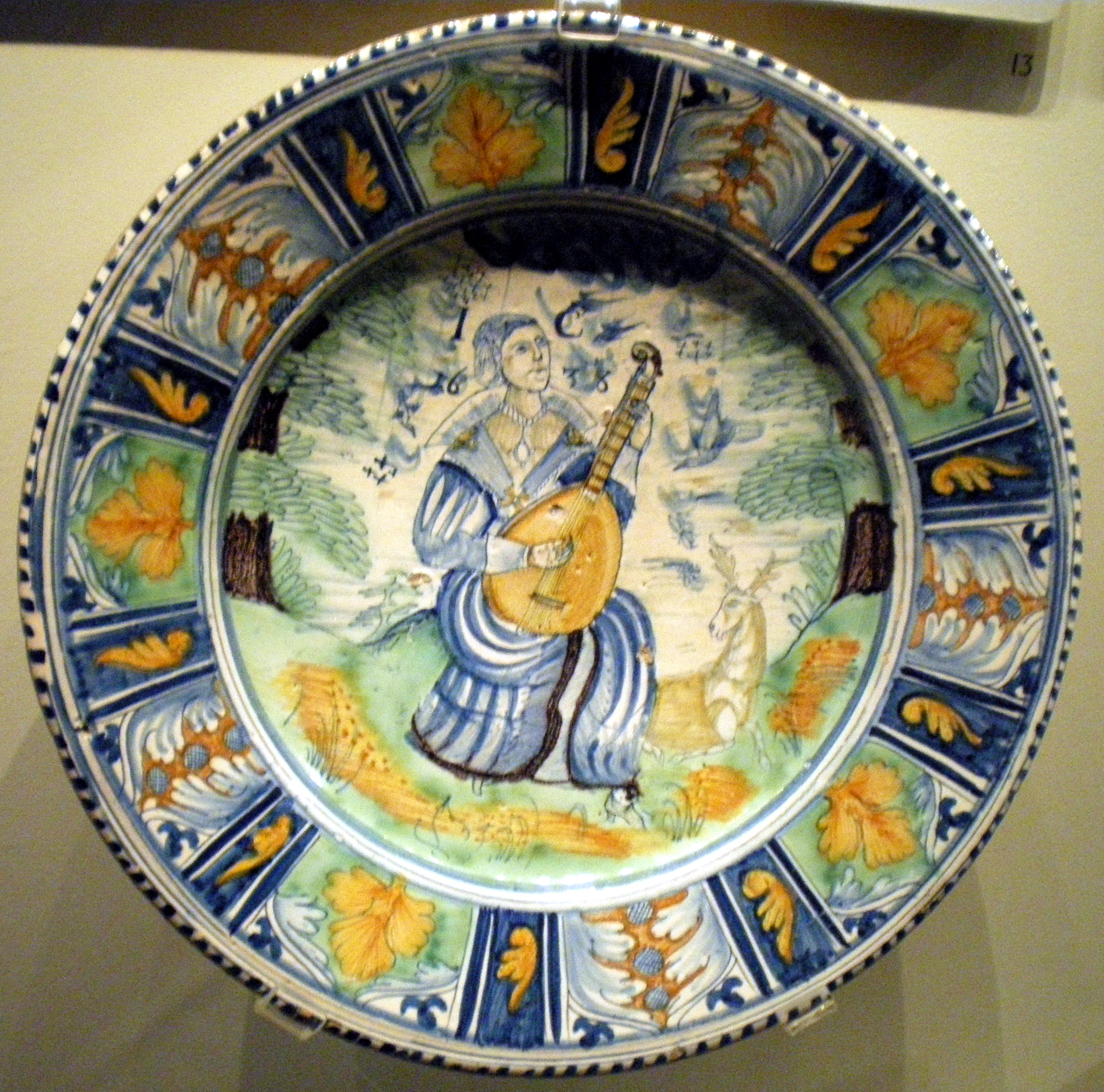 Dish Dated 1638 Tin-glazed earthenware (delftware) Possibly made in London by Richard Irons at the Southwark, Pickleherring or Montague Close Pottery Inscribed 'IC/1638' This is an entirely typical delftware dish made as a presentation piece, probably for a citizen (and perhaps a tradesman) of the City of London. Such dishes were used mainly as display objects, which often ensured their survival in as-new condition. Rarely can delftware be attributed to individual potters or painters. In this case, however, the distinctive drawing style can be linked to other surviving dishes, one of which bears the initials 'RI' on the back which have plausibly been identified with Richard Irons, a Southwark potter who was buried in 1664. During the 17th Century, Southwark was both the centre of the London delftware industry and an enclave of Dutch craftsmen in general. It is not known, however, which of the two major potteries (Pickleherring or Montague Close) Richard Irons may have worked for. Collection ID: C.56-1973 This photo was taken as part of Britain Loves Wikipedia in February 2010 by art_traveller.